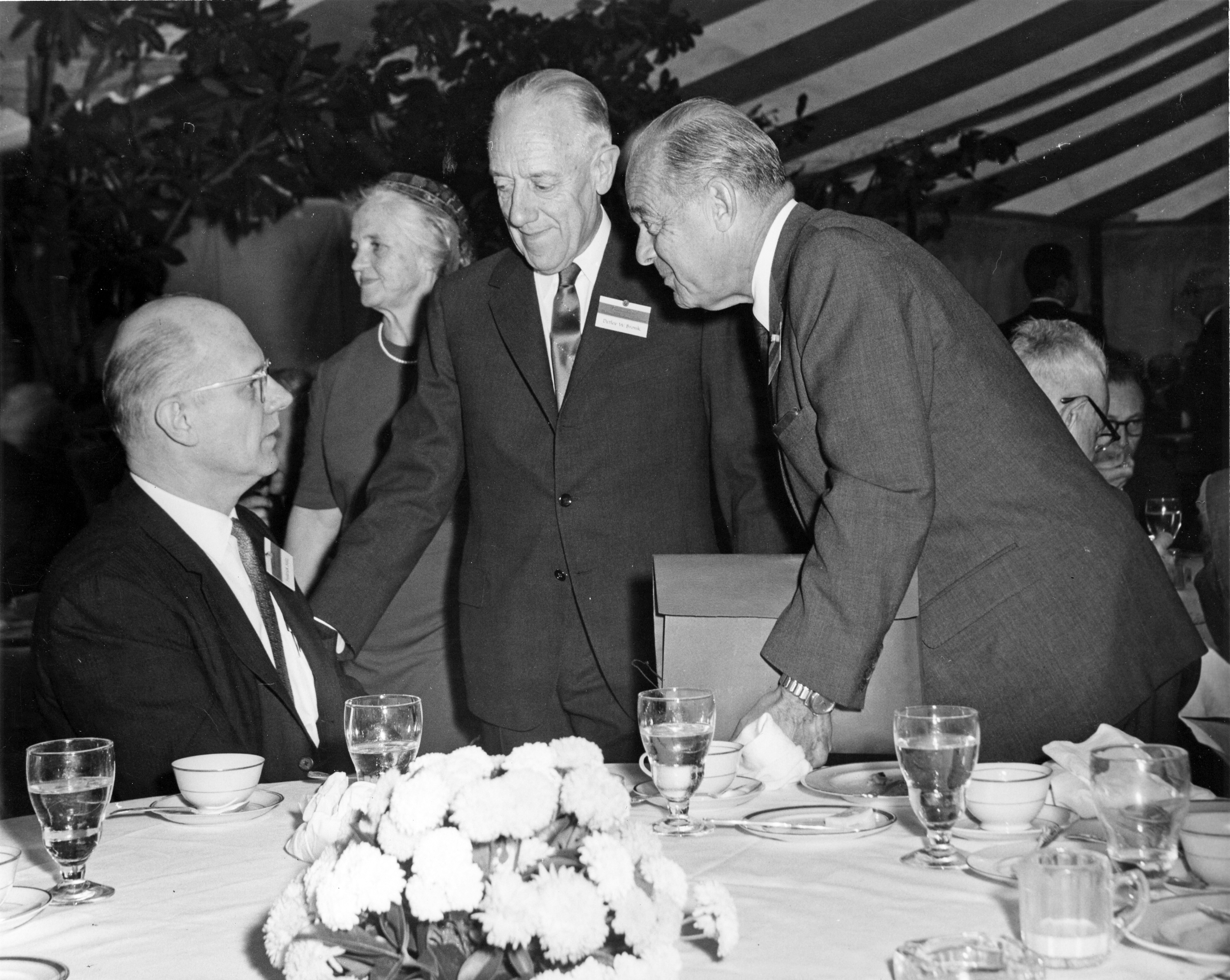 Description: Ava Helen Miller Pauling (1903-1981) was a noted pacifist, human rights activist, and conservationist, and a leader in the Women's International League for Peace and Freedom, American Civil Liberties Union, and the "Women Strike for Peace" movement. Her husband Linus Pauling received the Nobel Prize in chemistry in 1954 and the Nobel Peace Prize in 1962. This 1963 photograph shows Ava Pauling with (left to right) scientists Frederick Seitz (1911-2008), Detlev Wulf Bronk (1897-1975), and Paul Weiss. Creator/Photographer: Fremont Davis Medium: Black and white photographic print Date: 1963 Persistent URL: Collection: Accession 90-105: Science Service Records, 1920s – 1970s - Science Service, now the Society for Science & the Public, was a news organization founded in 1921 to promote the dissemination of scientific and technical information. Although initially intended as a news service, Science Service produced an extensive array of news features, radio programs, motion pictures, phonograph records, and demonstration kits and it also engaged in various educational, translation, and research activities. Accession number: SIA2007-0396